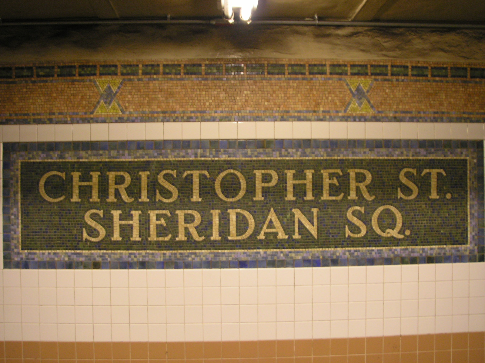 Mosaic sign on Christopher Street–Sheridan Square subway station in New York City.